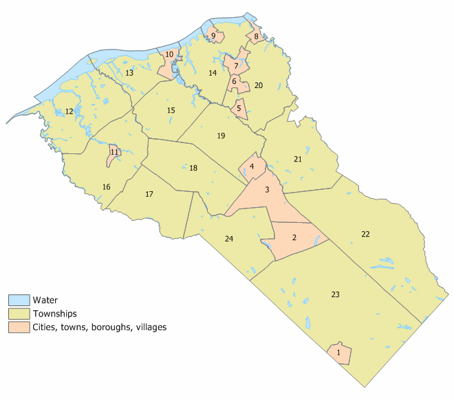 Gloucester County, New Jersey Municipalities